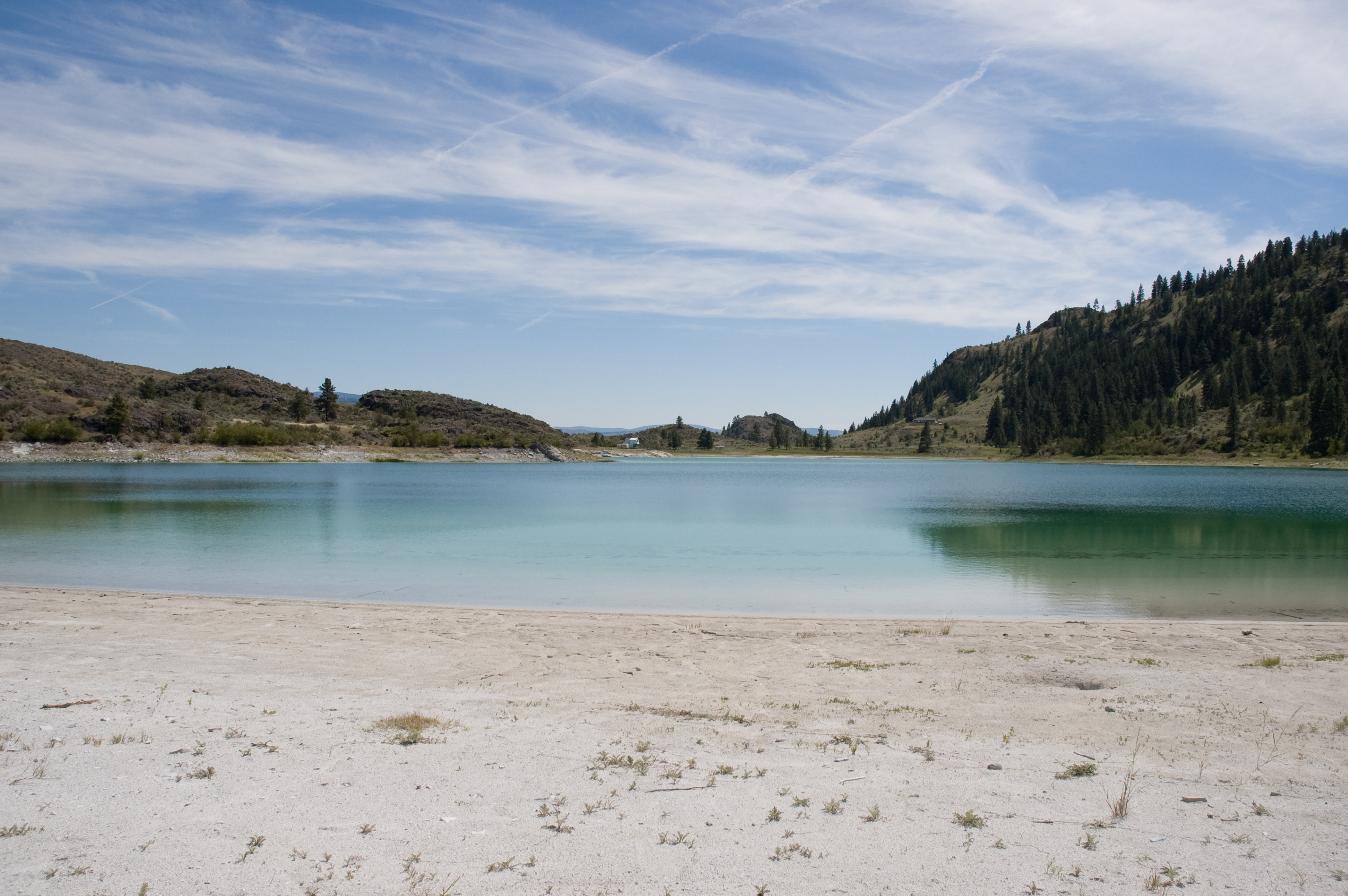 Beach at Omak Lake near Omak, Washington.